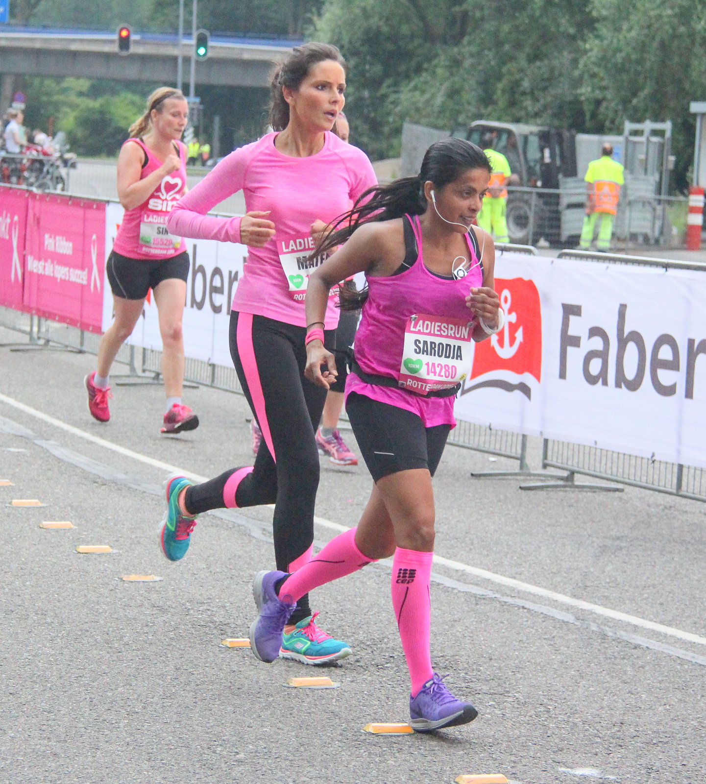 Black and white together racing Ladiesrun 2015